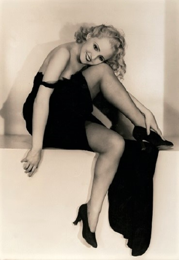 Polly Walters